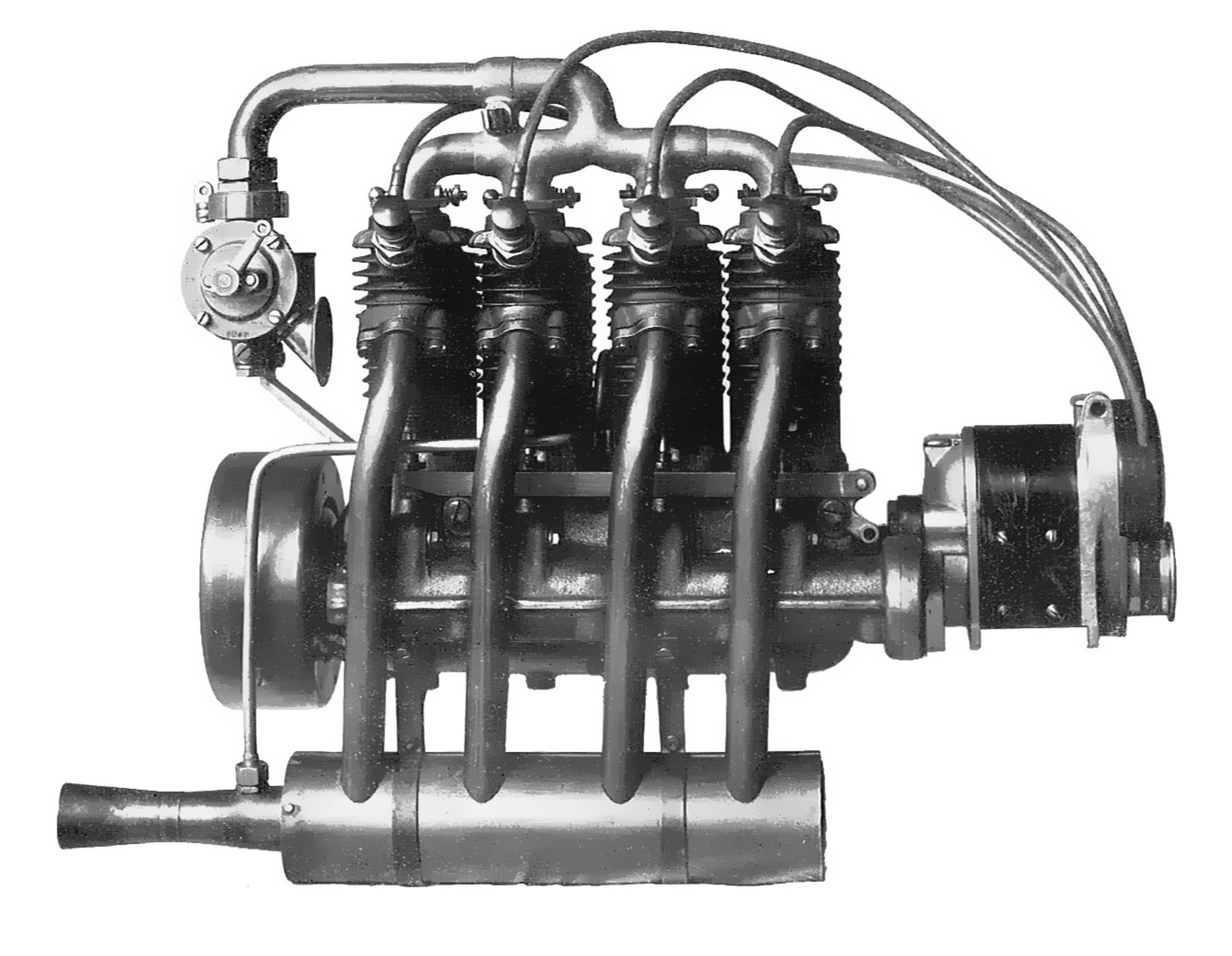 F.N. four-cylinder in-line motorcycle engine Scans from 'The Book of the Motor Car', Rankin Kennedy C.E., 1912 See other images from this source in Scans from 'The Book of the Motor Car'